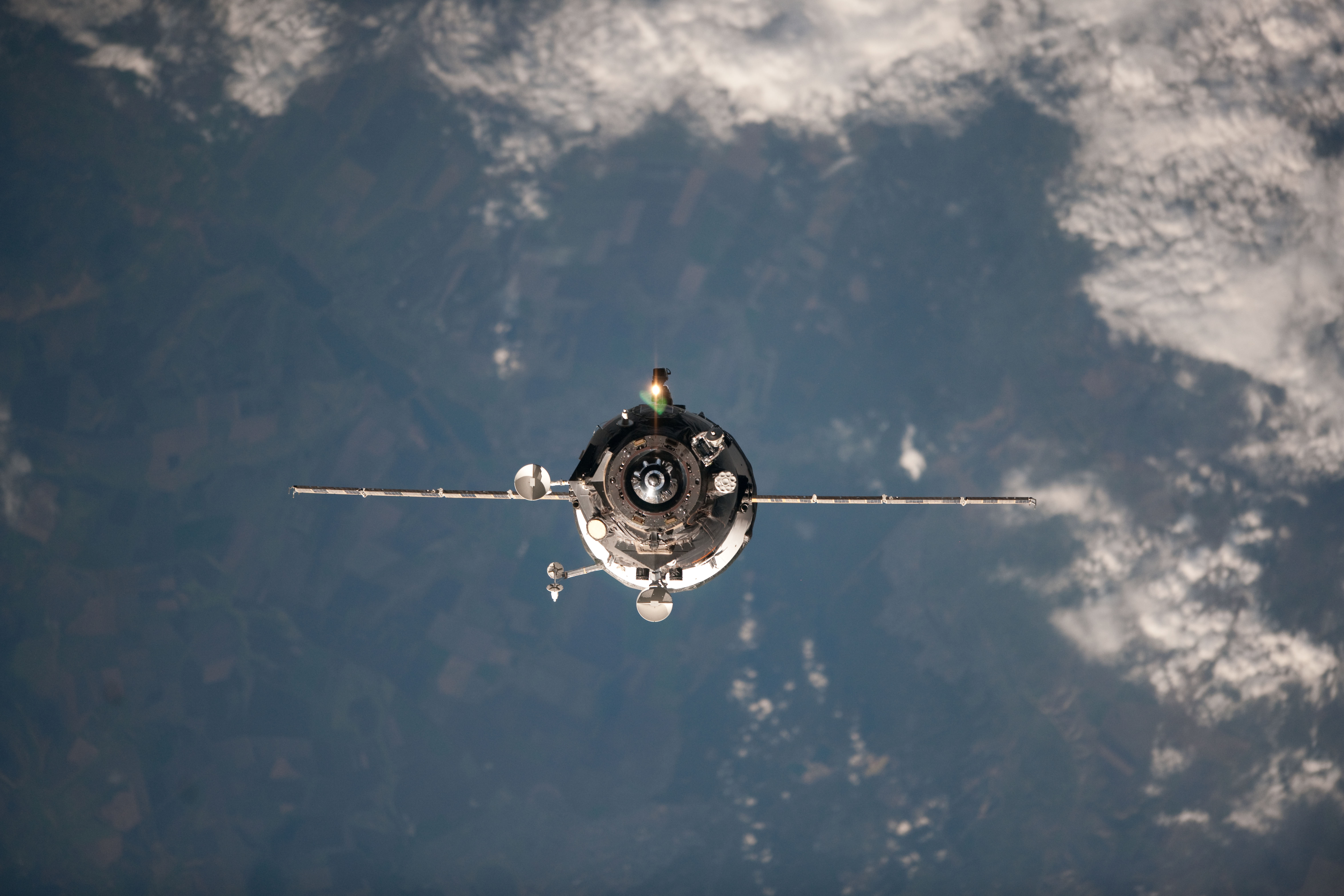 An unpiloted ISS Progress resupply vehicle approaches the International Space Station, carrying 2.8 tons of food, fuel and supplies. The cargo delivery includes 1,988 pounds of propellant, 110 pounds of oxygen and air, 926 pounds of water and 2,703 pounds of spare parts, resupply items and experiment hardware for the residents of the space station. Progress 47 docked to the station's Pirs Docking Compartment at 10:39 a.m. (EDT) on April 22, 2012.